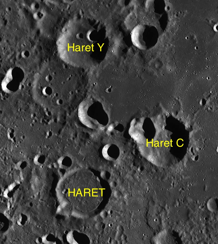 Part of the chart LAC-132.